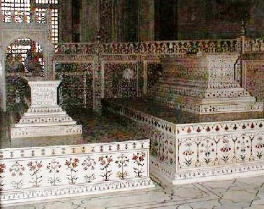 Taj Mahal: Cenotaphs, inner chamber